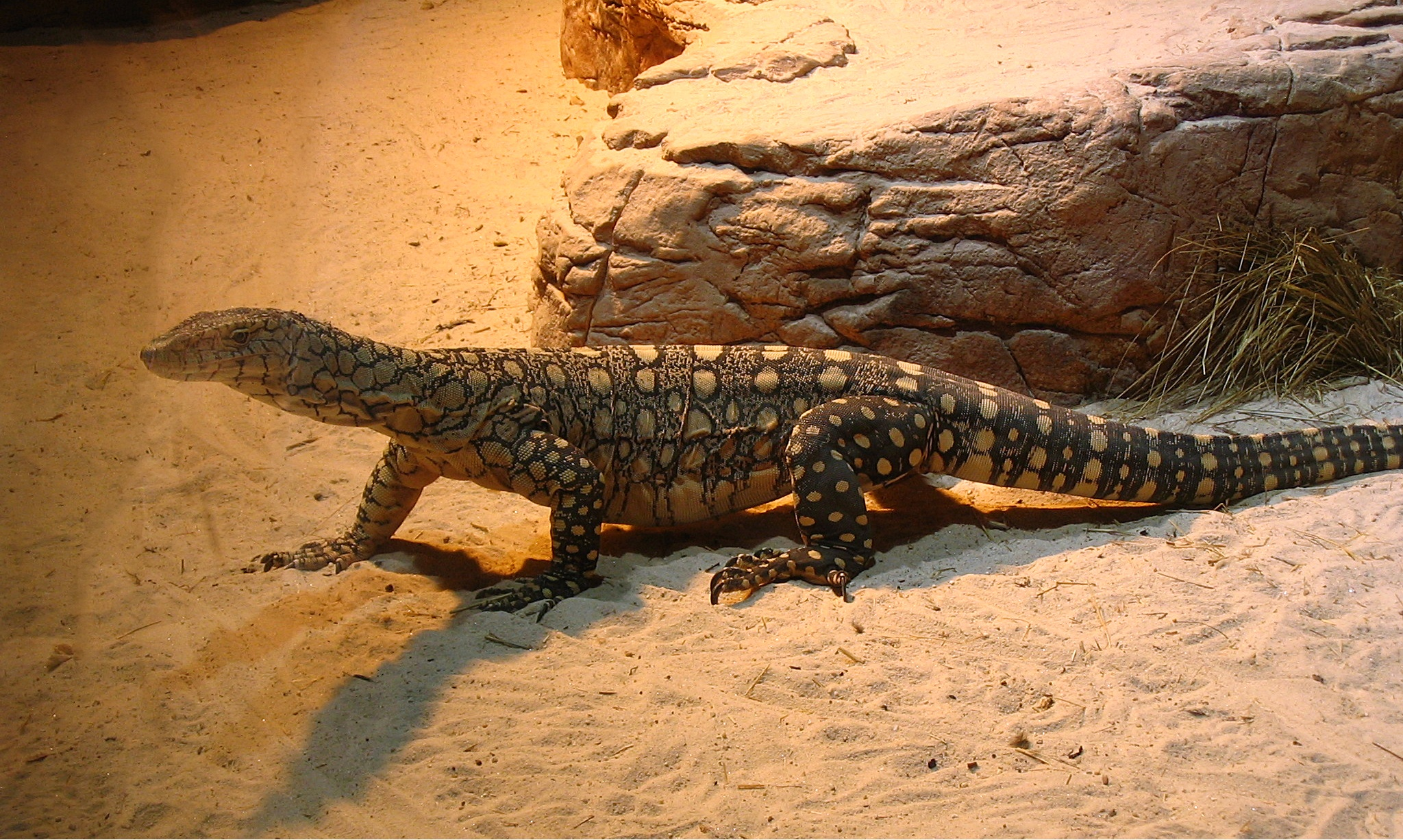 A Perentie (Varanus giganteus) at Sydney Wildlife World. Modified from original for color balance, sharpness, cropping, and reduction of distracting reflections from window.